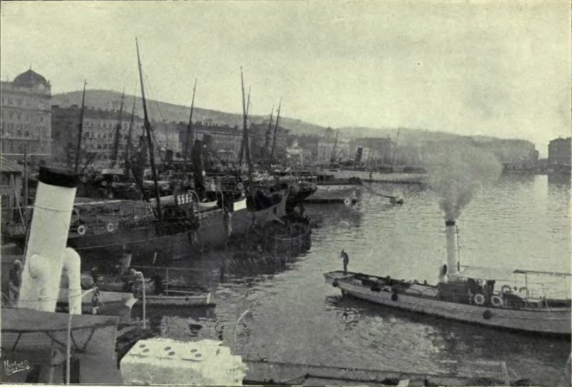 Port of Fiume, early XX century